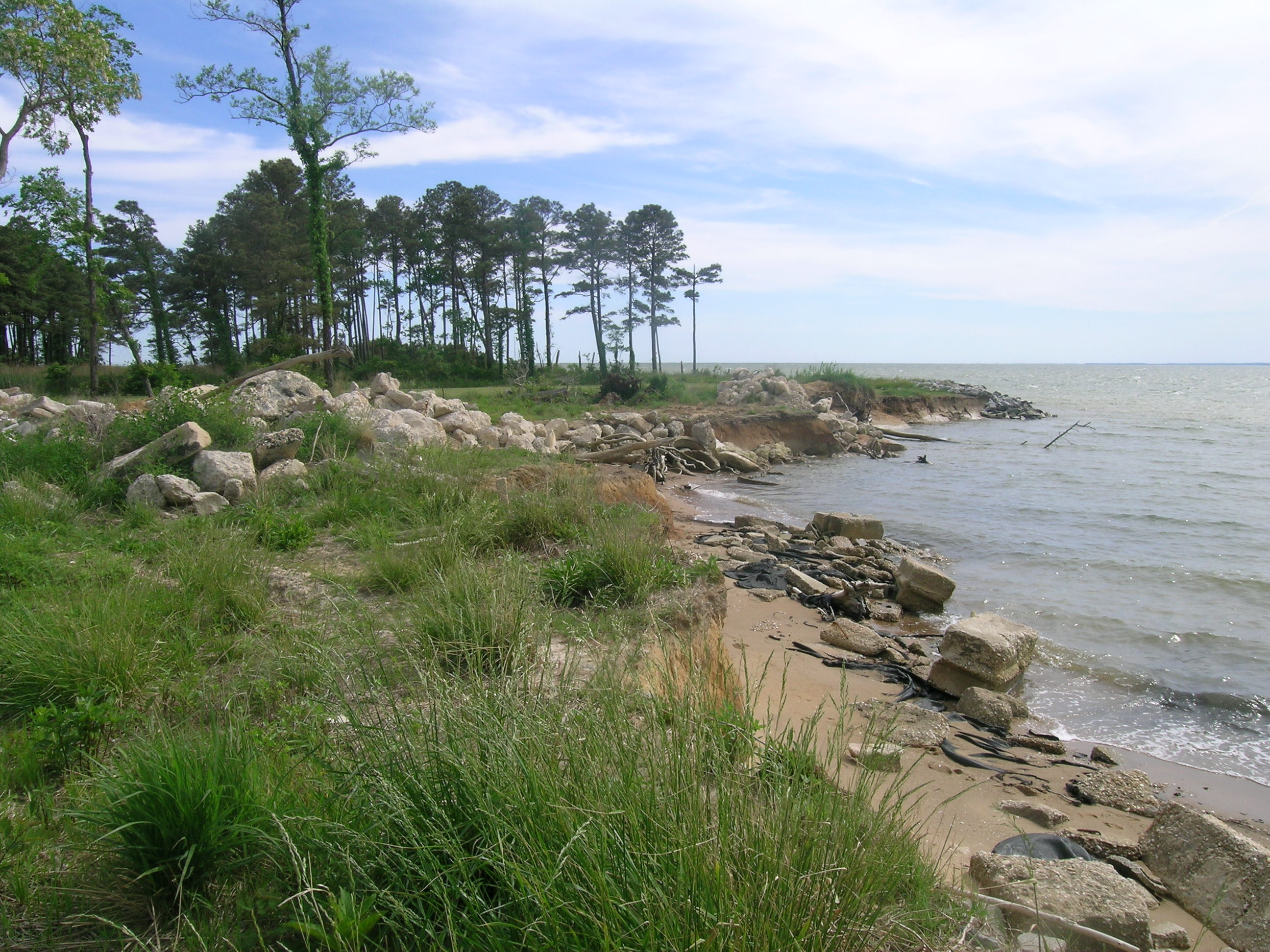 The landscape at Anchor of Hope Cemetery with a view of the Chesapeake Bay. The cemetery has suffered from significant erosion.